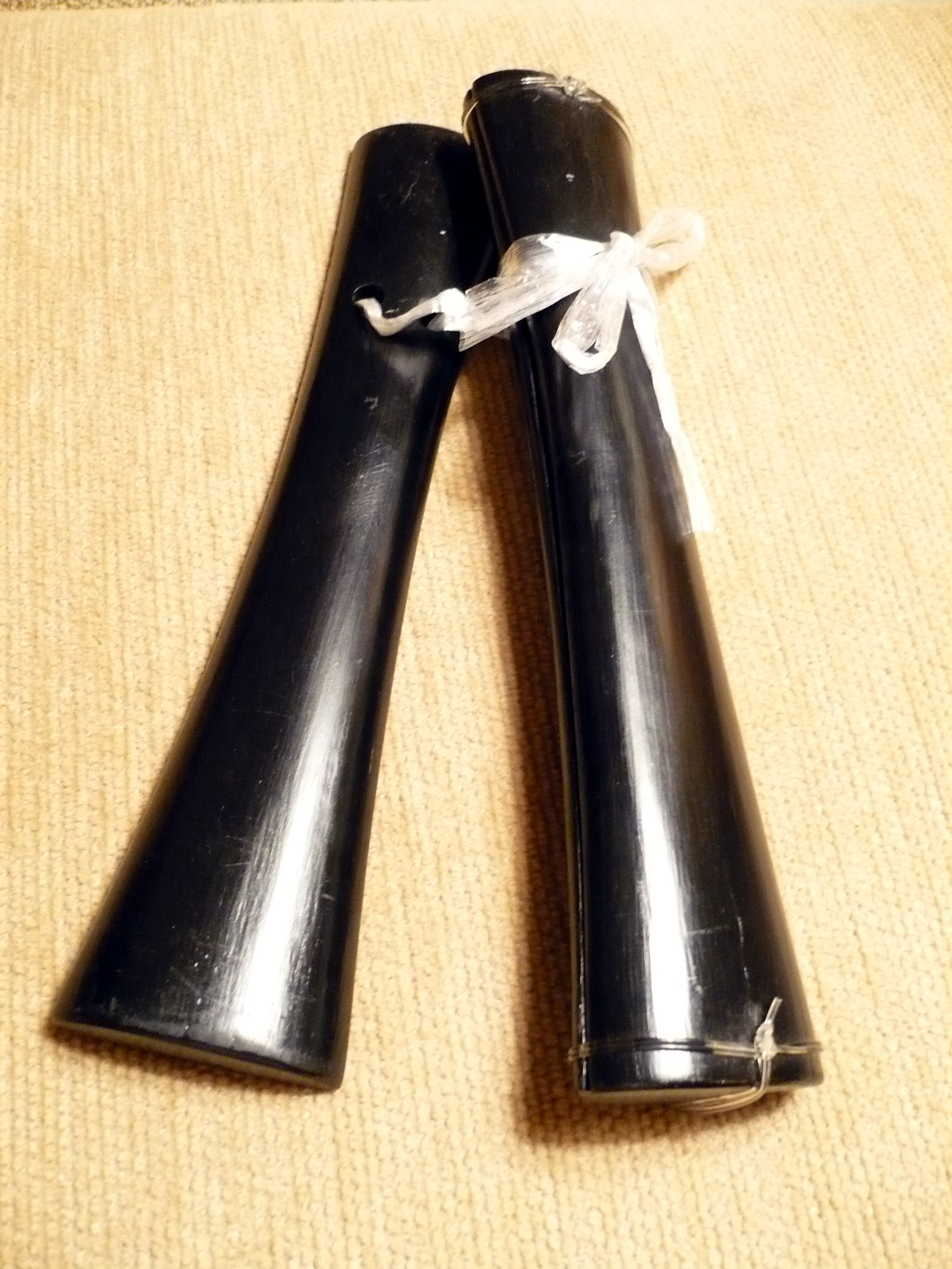 A paiban (hardwood clapper) used in Chaozhou music. The paiban is made of three pieces of very hard hardwood: a single piece on the left and two pieces that are tied together with thin nylon cord on the right.